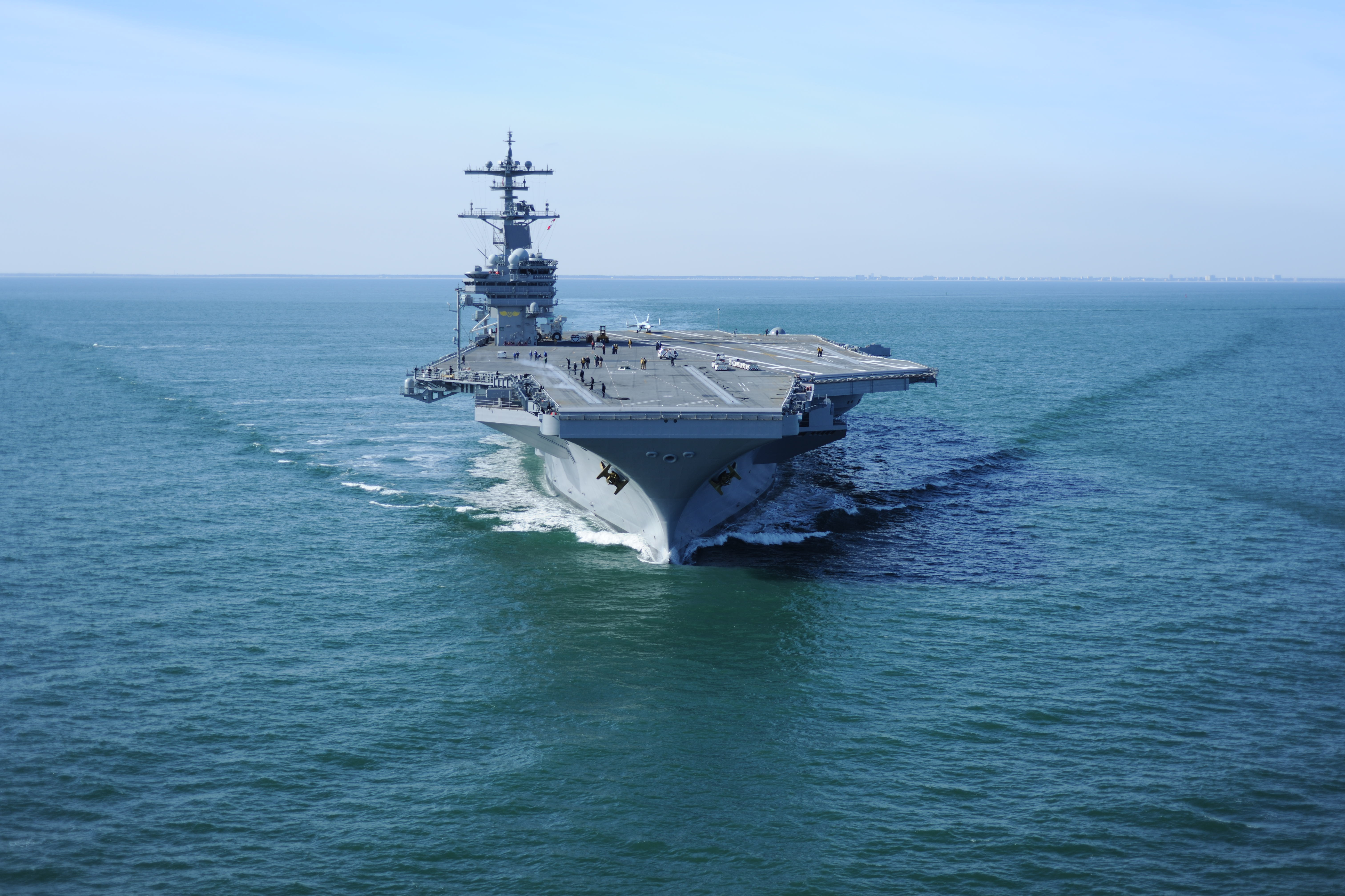 ATLANTIC OCEAN (Jan. 27, 2010) The Nimitz-class aircraft carrier USS George H.W. Bush (CVN 77) is underway in the Atlantic Ocean conducting sea trials. George H.W. Bush will return to homeport at Naval Station Norfolk, Va. to begin the workup cycle towards deployment after an extensive seven-month post shakedown availability and selective restrictive availability trials. (U.S. Navy photo by Mass Communication Specialist 1st Class Jason Winn/Released)